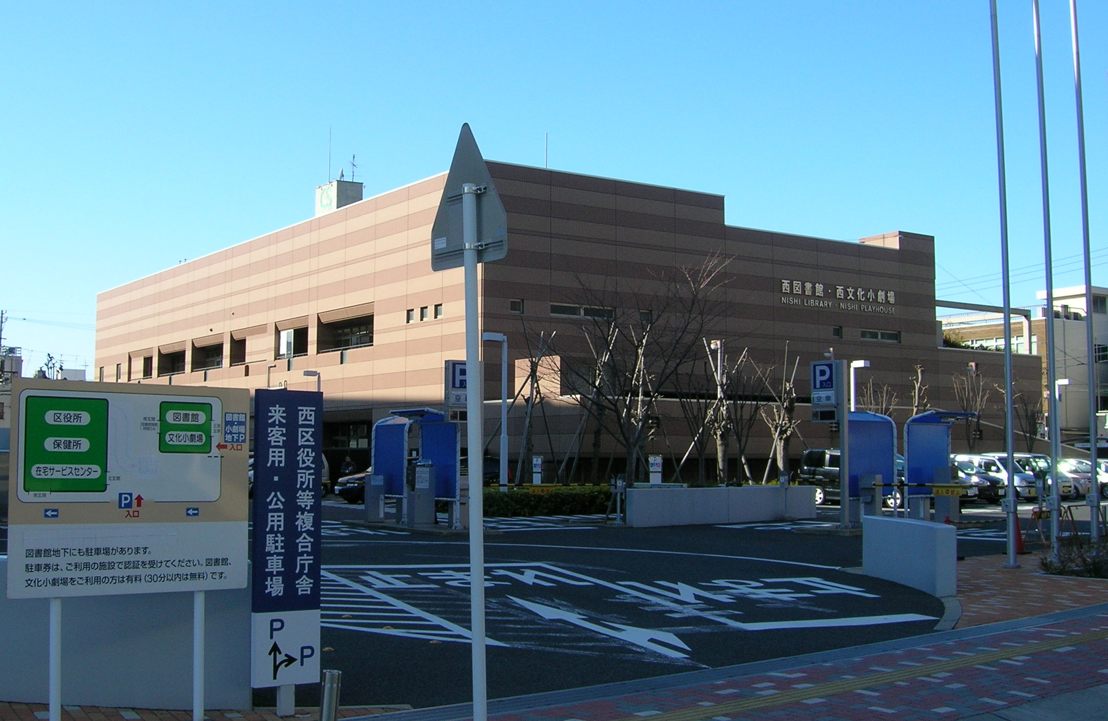 Nagoya City Nishi library, and Nagoya City Nishi playhouse. Loc: Nishi-ku, Nagoya city, Aichi Prefecture, Japan.